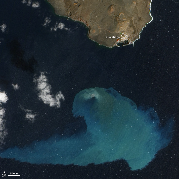 To download the full resolution and other files go to: Four months after it began, the underwater volcanic eruption off El Hierro Island persists. This natural-color satellite image, collected on February 10, 2012, shows the site of the eruption, near the fishing village of La Restinga. Bright aquamarine water indicates high concentrations of volcanic material. Immediately above the vent, a patch of brown water resembles a turbulent hot tub and indicates when and where the eruption is strongest. Video of the eruption shows the activity in more detail. This image was acquired by the Advanced Land Imager (ALI) aboard the Earth Observing-1 (EO-1) satellite. The eruption is just off the southern coast of El Hierro, the youngest of the Canary Islands. El Hierro is about 460 kilometers (290 miles) west of Morocco and Western Sahara. According to El Hierro Digital, measurements of the sea floor by the Instituto Oceanográfico Español found that the volcano’s summit is now only 120 meters (390 feet) beneath the ocean surface—10 meters (30 feet) higher than it was in mid-January. The height of the erupting cone is about 210 meters (690 feet) above the former ocean bottom, with a total volume over 145 million cubic meters (512 million cubic feet) of new material. NASA Earth Observatory image by Jesse Allen and Robert Simmon, using EO-1 ALI data. Caption by Robert Simmon. View more from this event at The Earth Observatory's mission is to share with the public the images, stories, and discoveries about climate and the environment that emerge from NASA research, including its satellite missions, in-the-field research, and climate models. Like us on Facebook Follow us on Twitter Add us to your circles on Google+